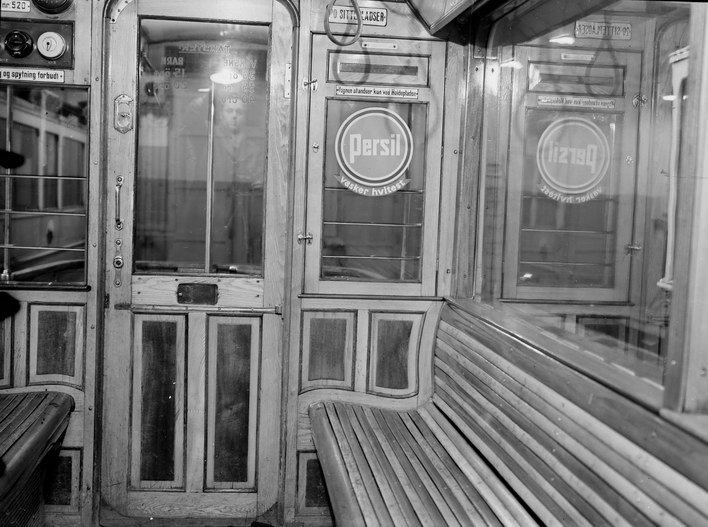 Inteorior of a rebuilt Class S tram of the Oslo Tramway.